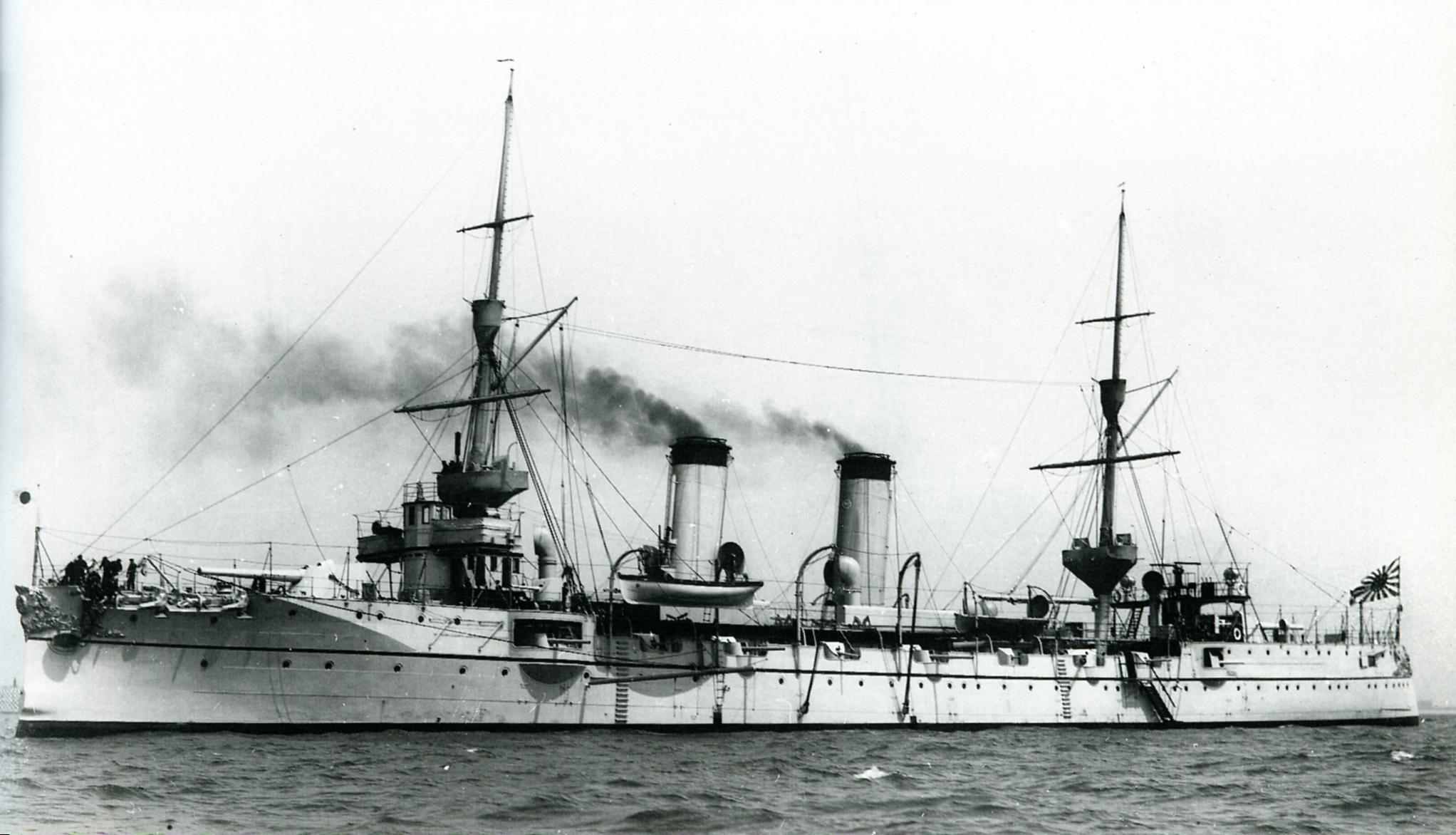 Japanese cruiser Takasago at Portsmouth on May 31 1898